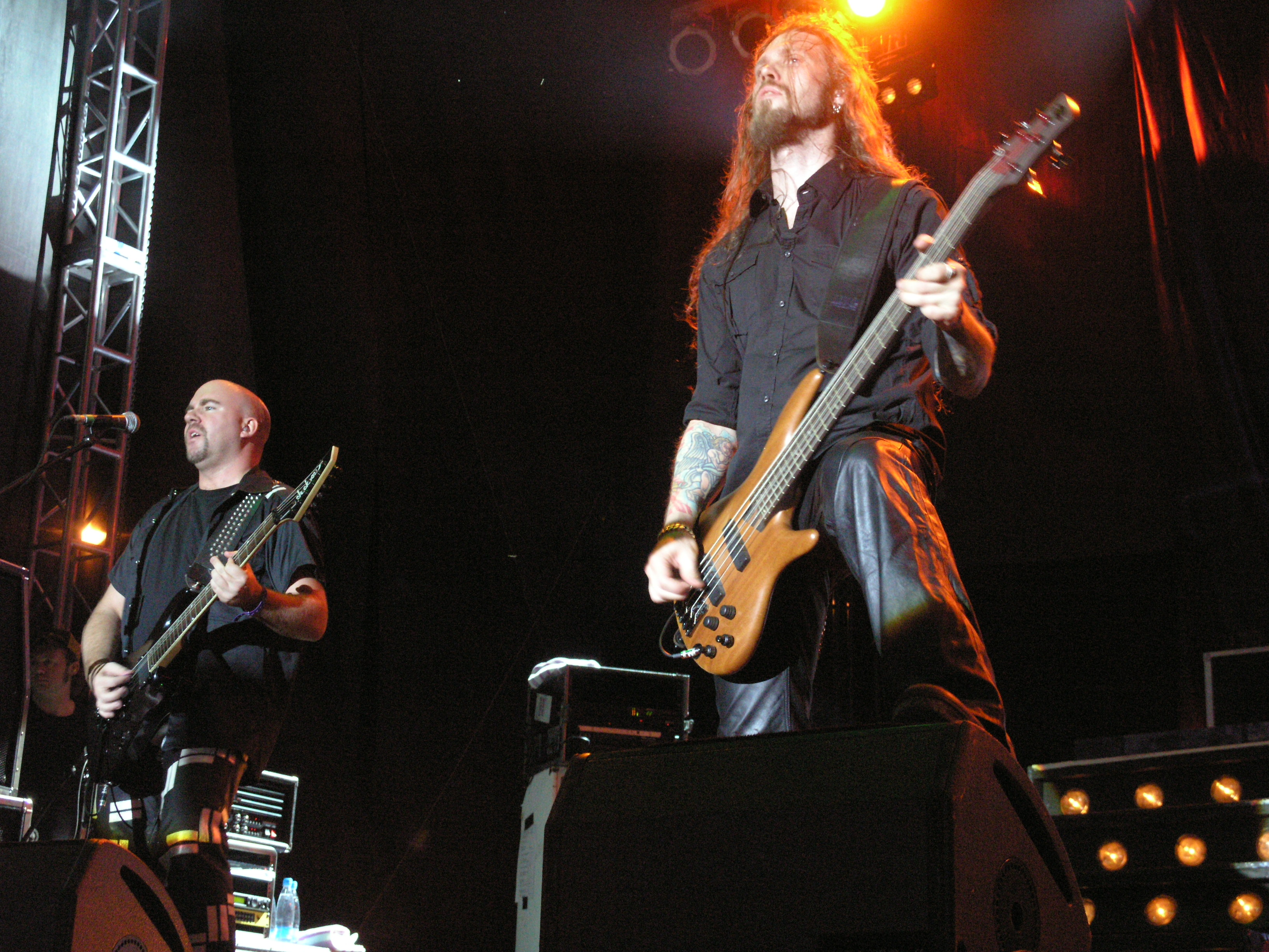 Music band Hammerfall during Masters of Rock 2007 festival